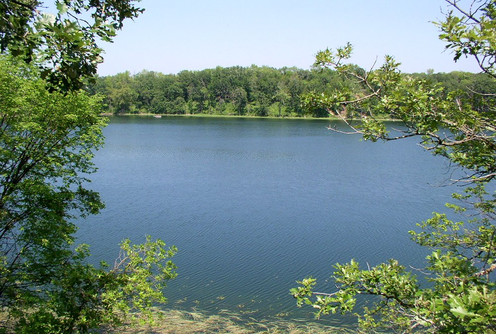 Mountain Lake, Glacial Lakes State Park, Minnesota, USA